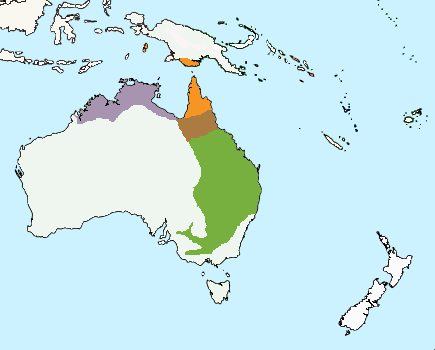 Range map of Blue-faced Honeyeater, with three subspecies and intergrade zone marked out. Violet = subspecies albipennis, green = subspecies cyanotis, orange = subspecies griseigularis, brown = intergrade zone between cyanotis and griseigularis. Adapted from: Schodde, Richard; Mason, Ian J. (1999) The Directory of Australian Birds: Passerines. A taxonomic and zoogeographic atlas of the biodiversity of birds of Australia and its territories, Melbourne: CSIRO Publishing, p. 274 ISBN: 0-643-06456-7.